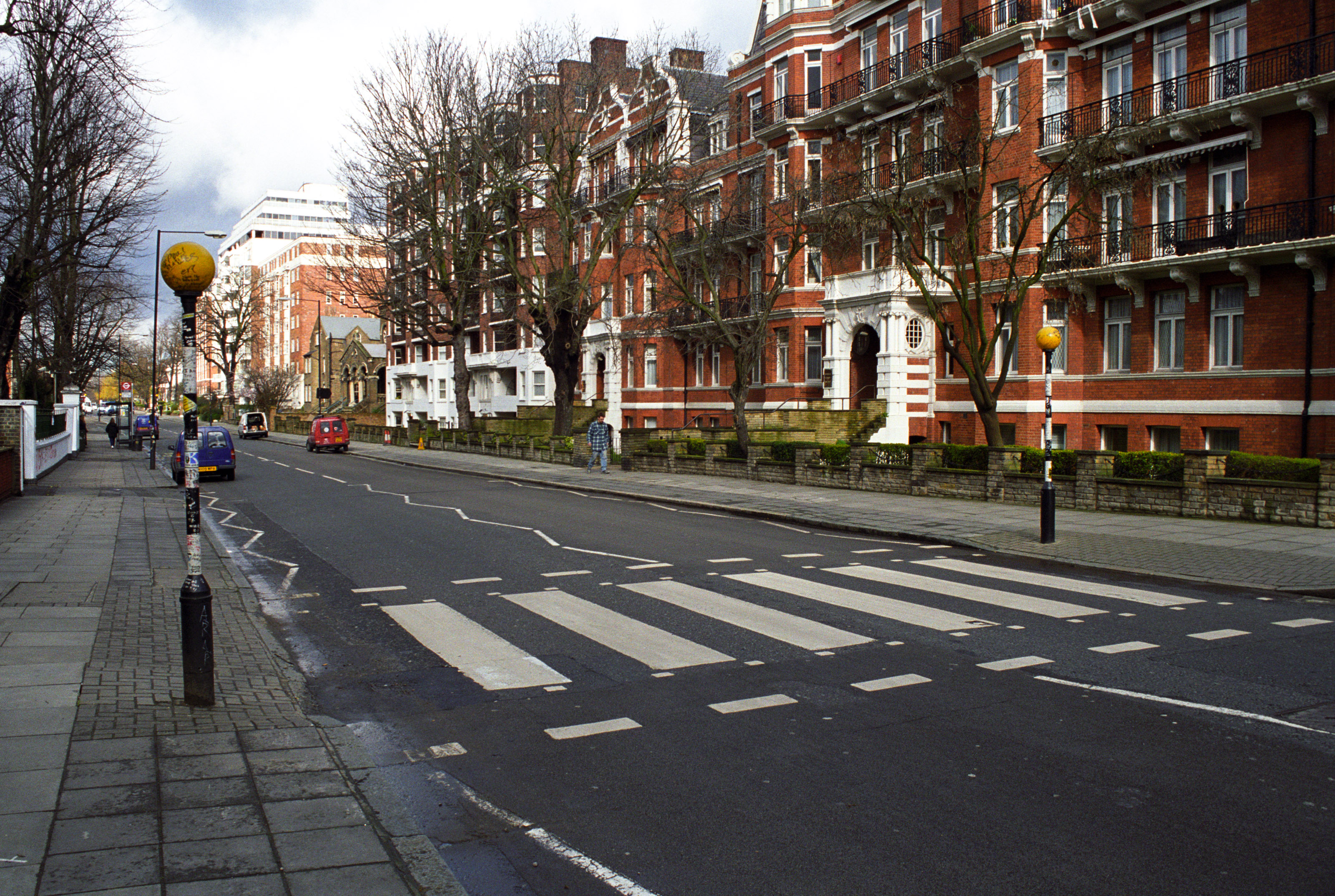 Abbey Road, London